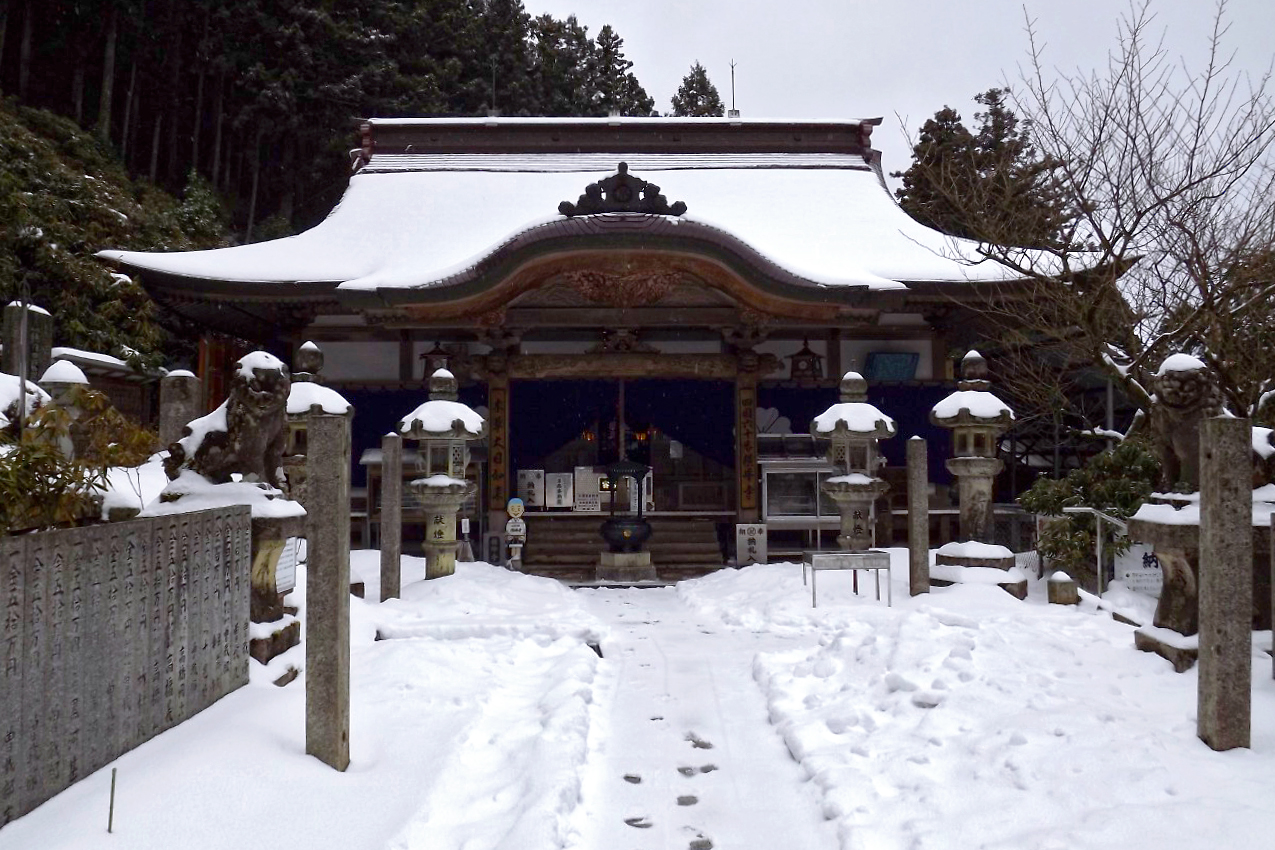 Yokomine-ji Main Hall in Saijo, Ehime prefecture, Japan.